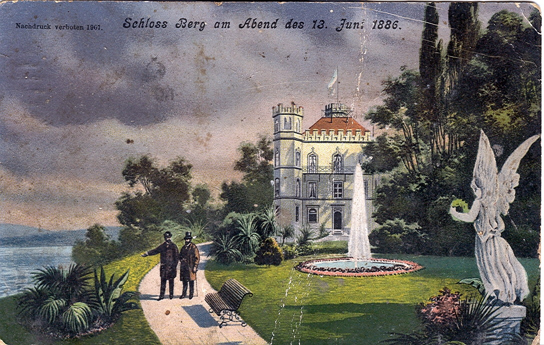 Postcard, dated 1901. Title: "Berg castle in the evening of June 13th 1886"